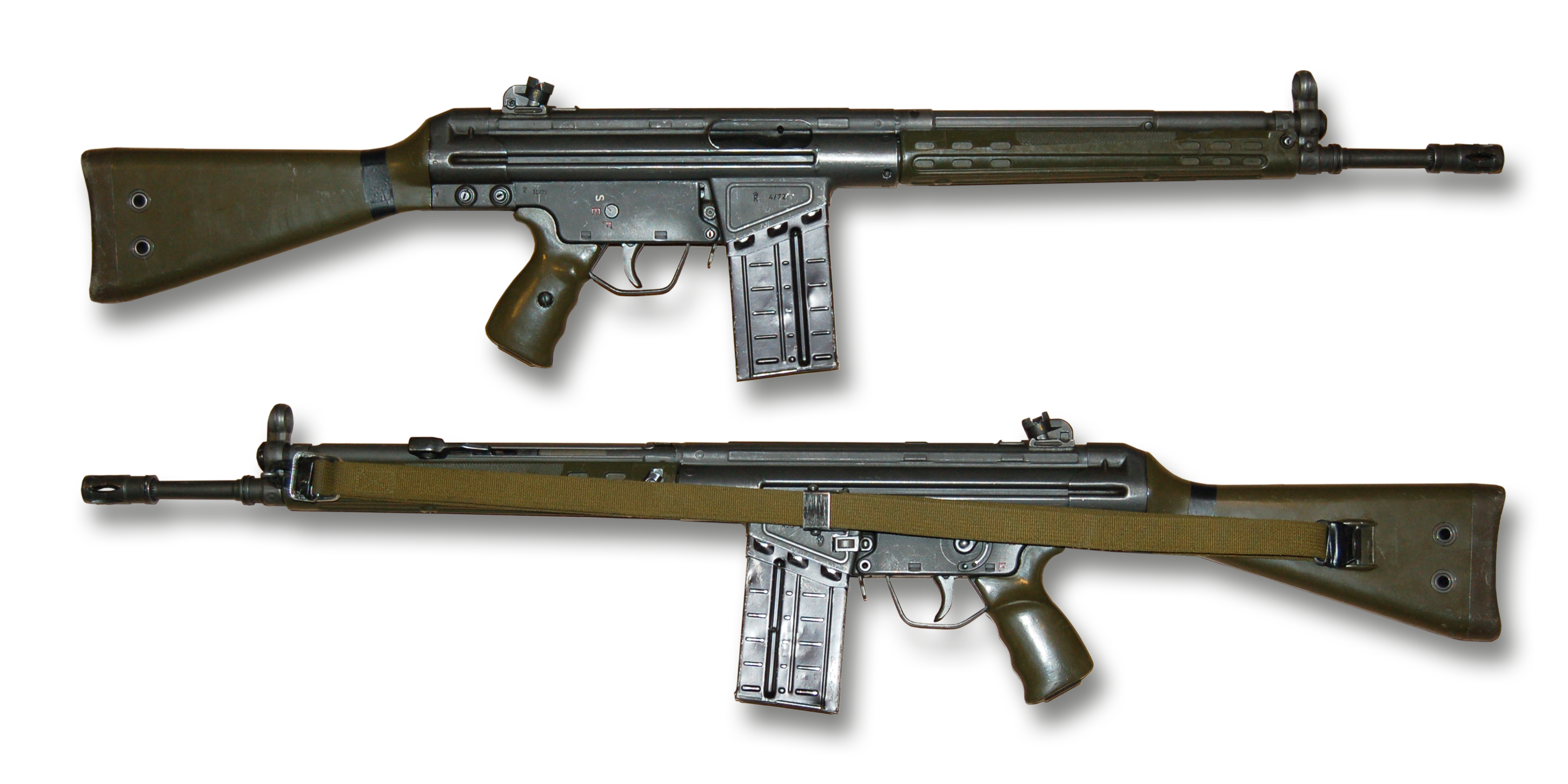 The Norwegian produced AG-3 7.62×51mm NATO assault rifle, G3A5 variant of the G3.